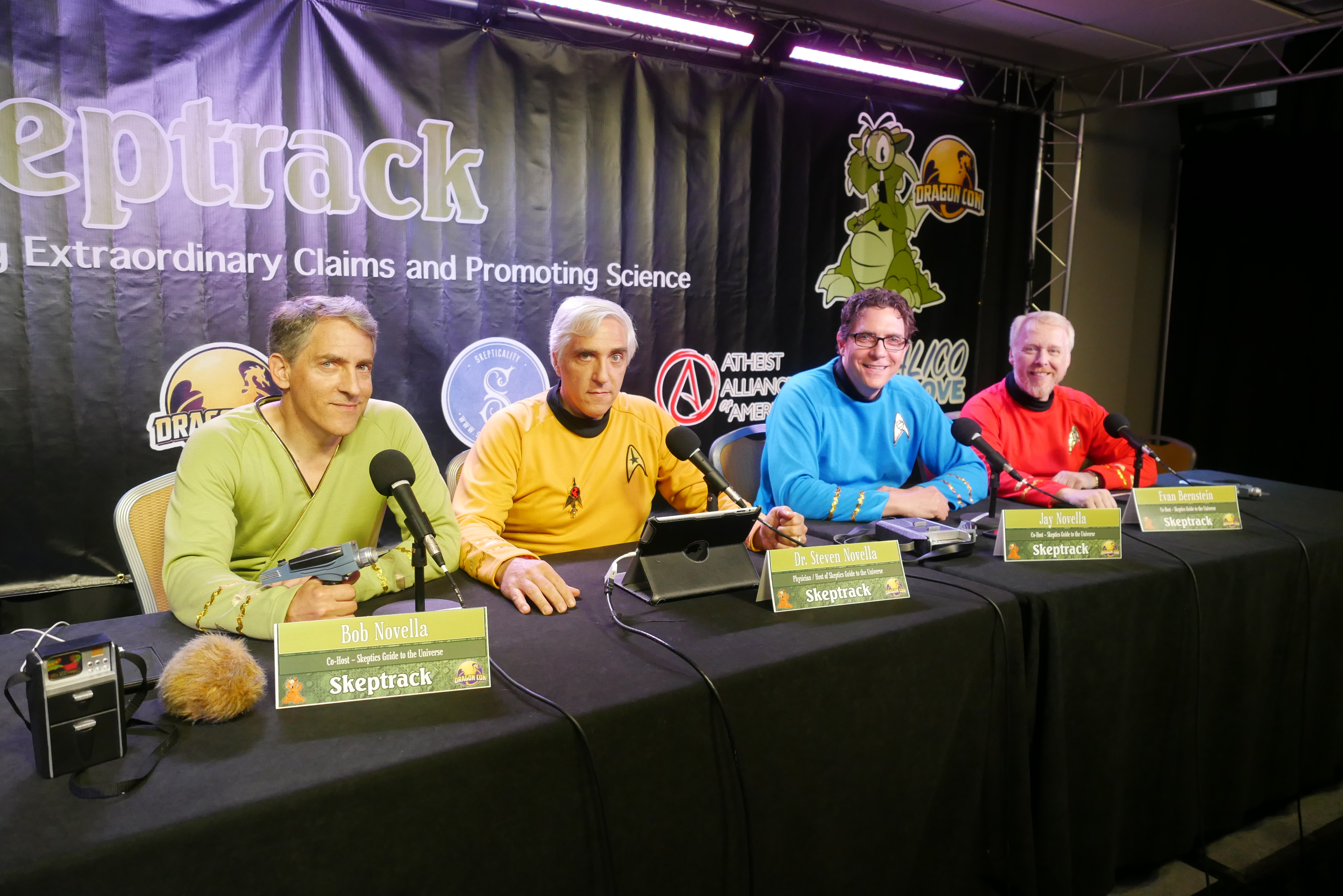 SGU Dragon Con Panel 2018 Bob, Steve, Jay Novella and Evan Bernstein (red shirt)